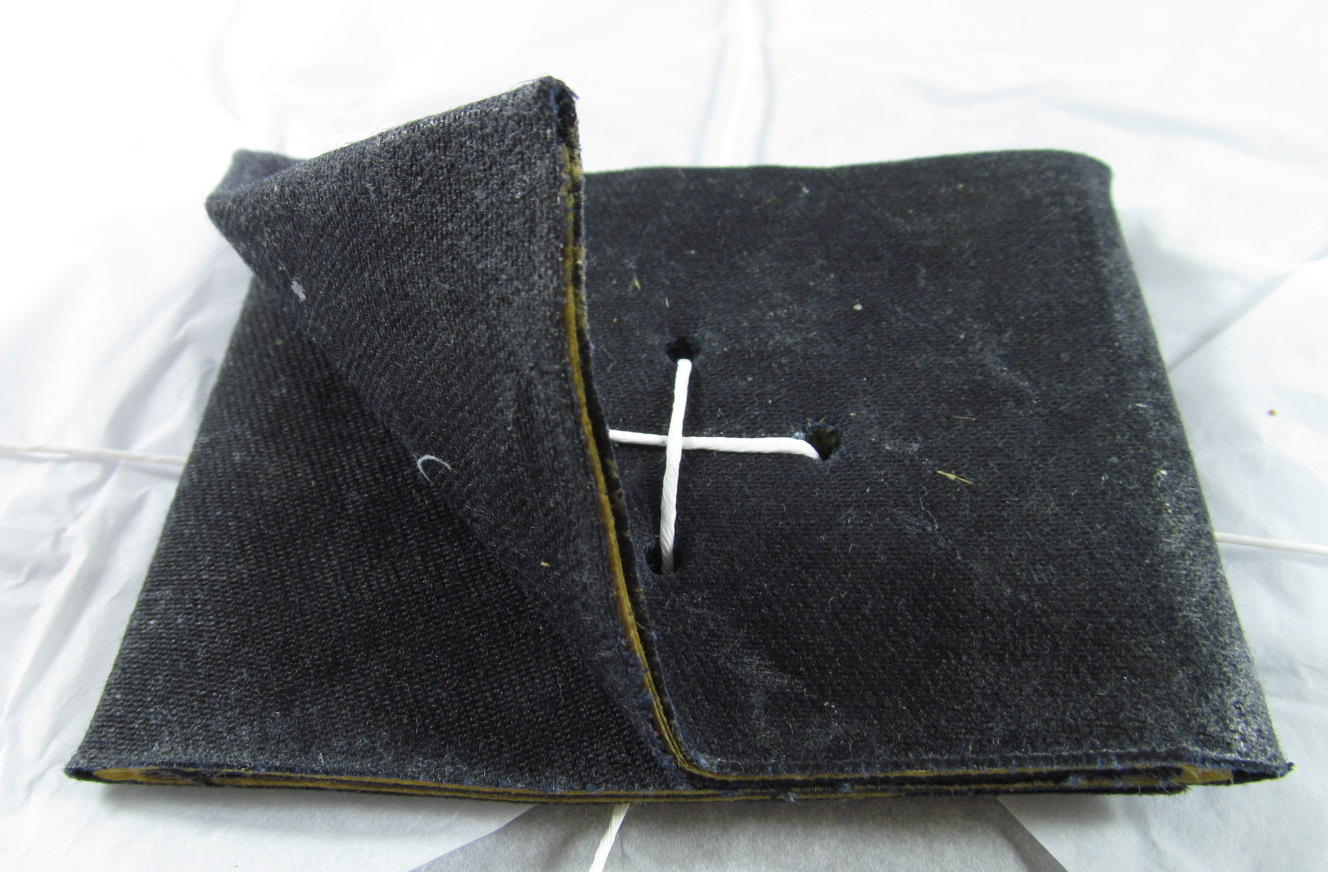 hot-air balloon burner